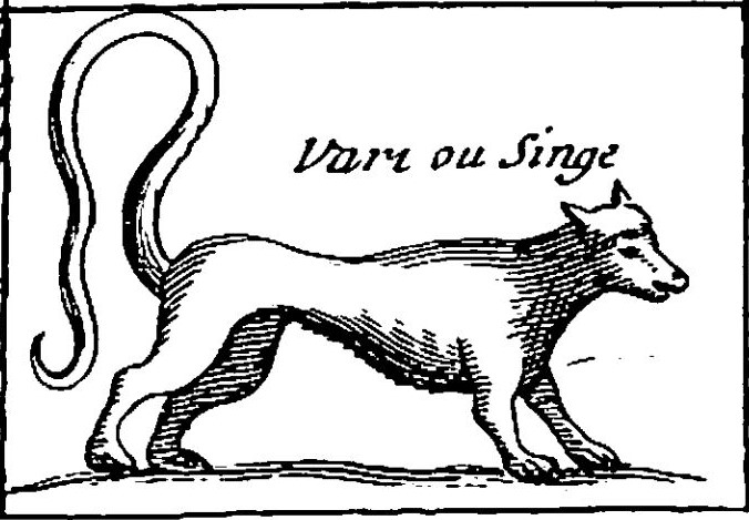 Table from Flacourt's book Histoire de la grande isle Madagascar from 1658 (detail)